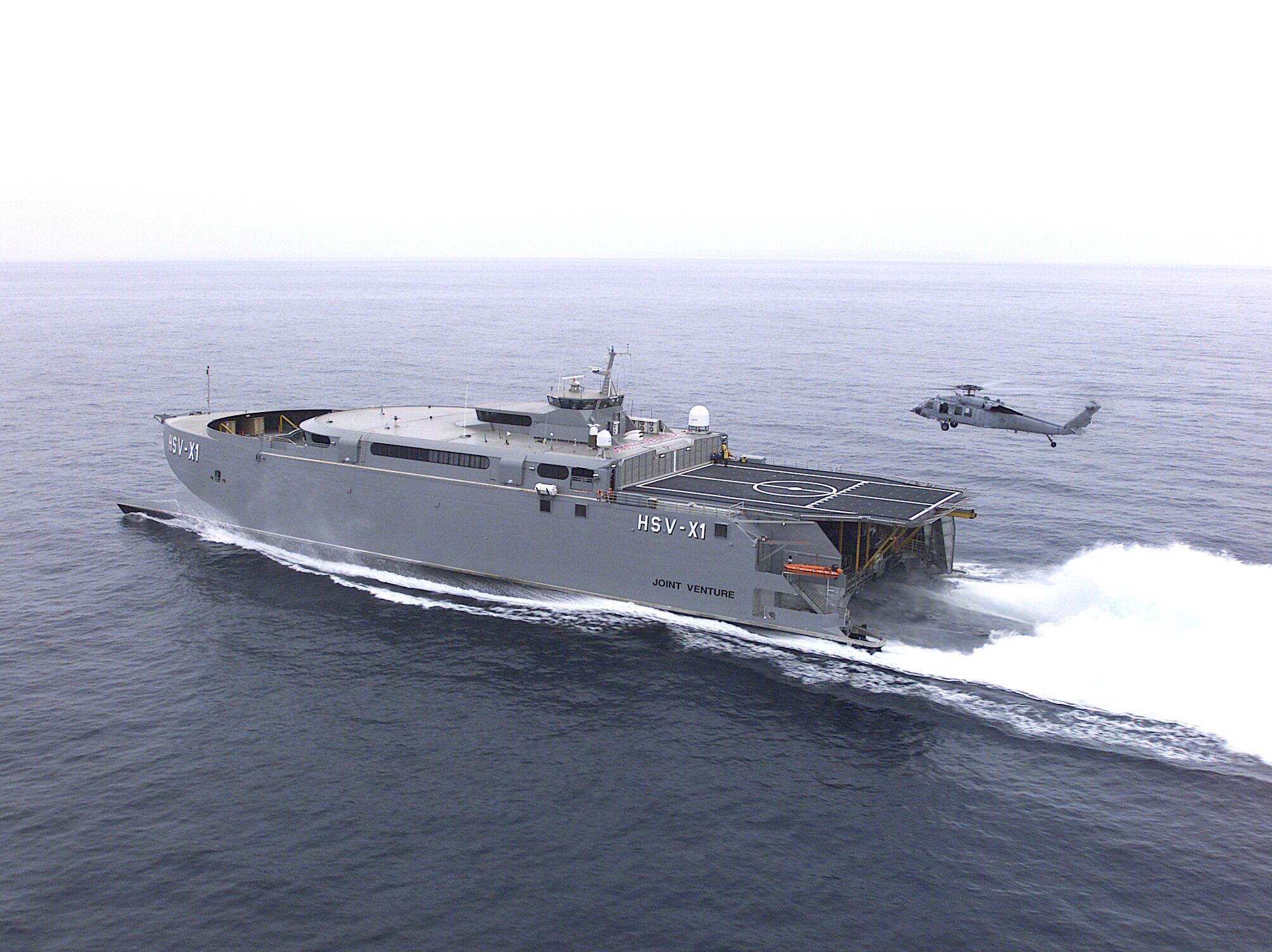 Pacific Ocean (Aug. 2, 2002) -- An MH-60S “Knight Hawk” multi-mission helicopter from the “Packrats” of Helicopter Combat Support Squadron Three (HC-3), makes an approach to the experimental high-speed vessel “Joint Venture” (HSV-X1) during operations off the southern California coast. The Knighthawk is a newly designed helicopter for the Navy which uses the Black Hawk airframe to provide a larger cabin area for cargo and passenger transport, while keeping the automatic rotor blade folding system and rapid folding tail pylon for ship board operations. Joint Venture is participating in Fleet Battle Experiment Juliet (FBE-J) as part of operations supporting Millennium Challenge 2002 (MC-02). MC-02 is the nation's premier joint integrating event, bringing together both live field exercises and computer simulations throughout the Department of Defense. U.S. Navy photo by Photographer’s Mate 2nd Class Frederick McCahan. (RELEASED)